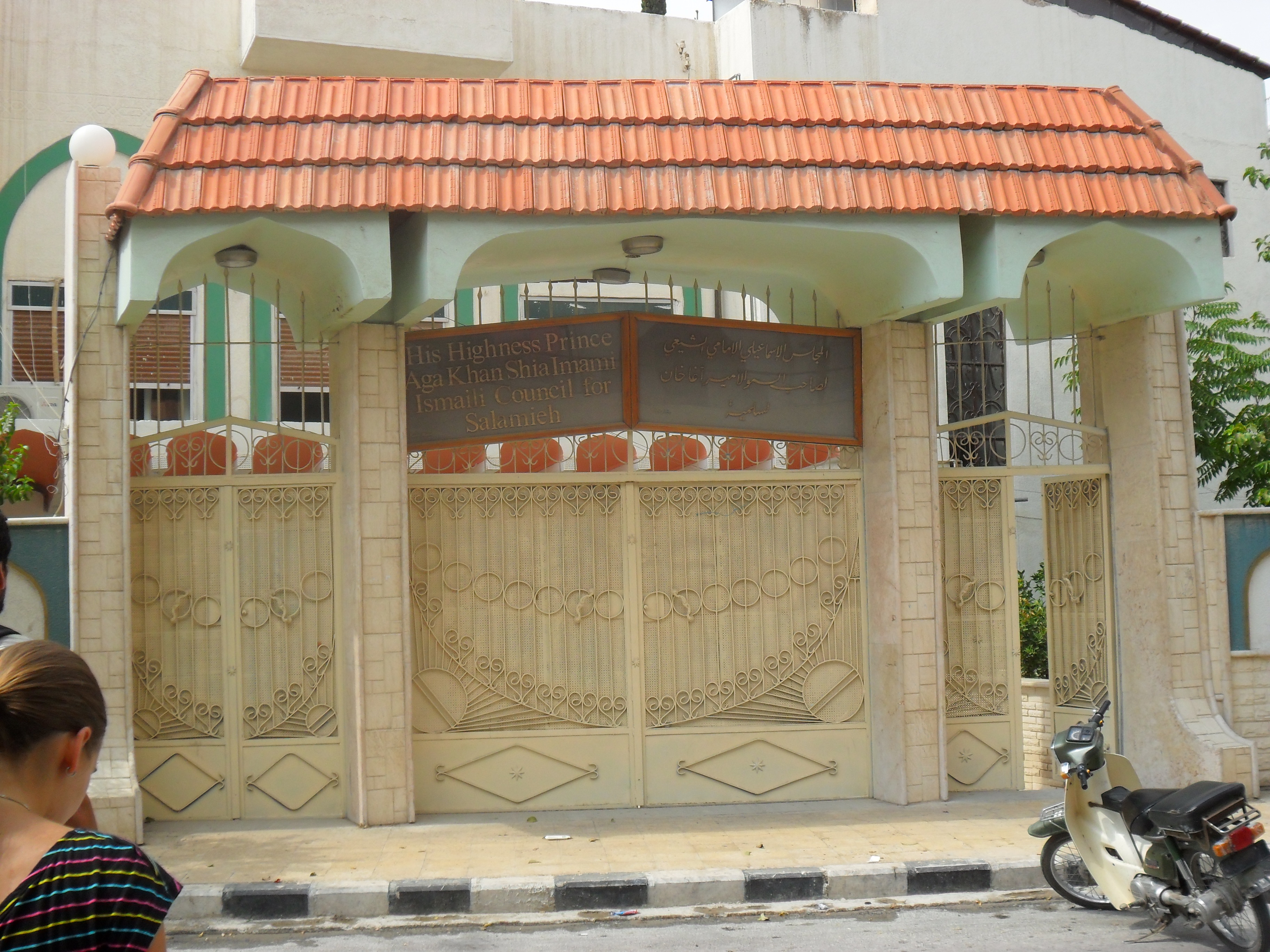 Gate of the Ismaili Center in Salamiyah, Syria. The mausoleum of Aly Khan is located on the site.